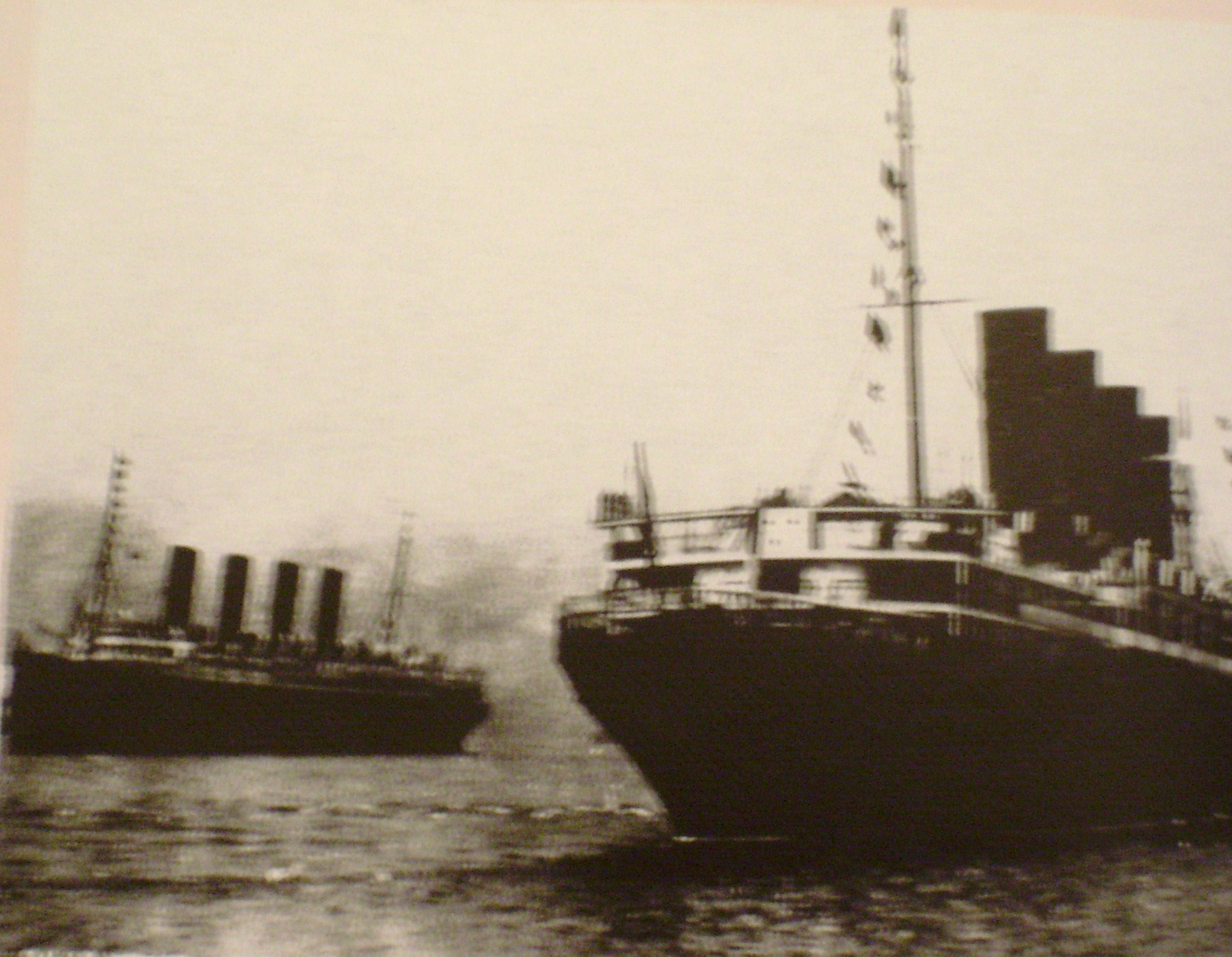 The Mauretania and the Lusitania pass in Liverpool's River Mersey.